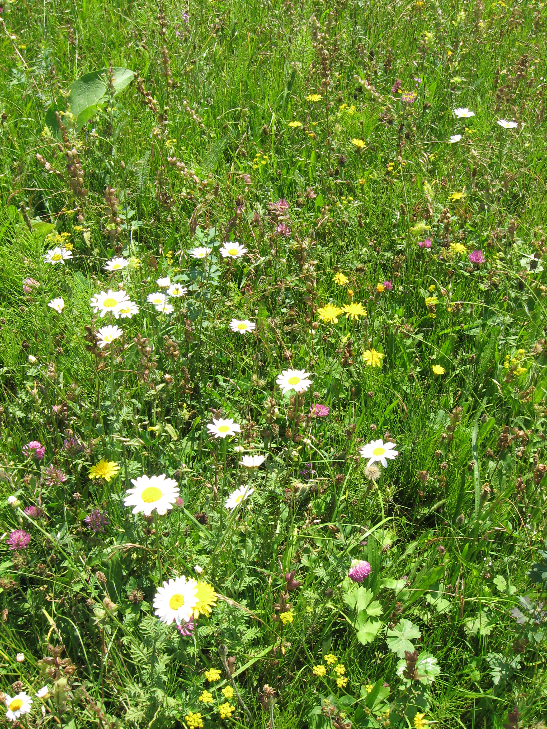 Flora of Azerbaijan, Quba